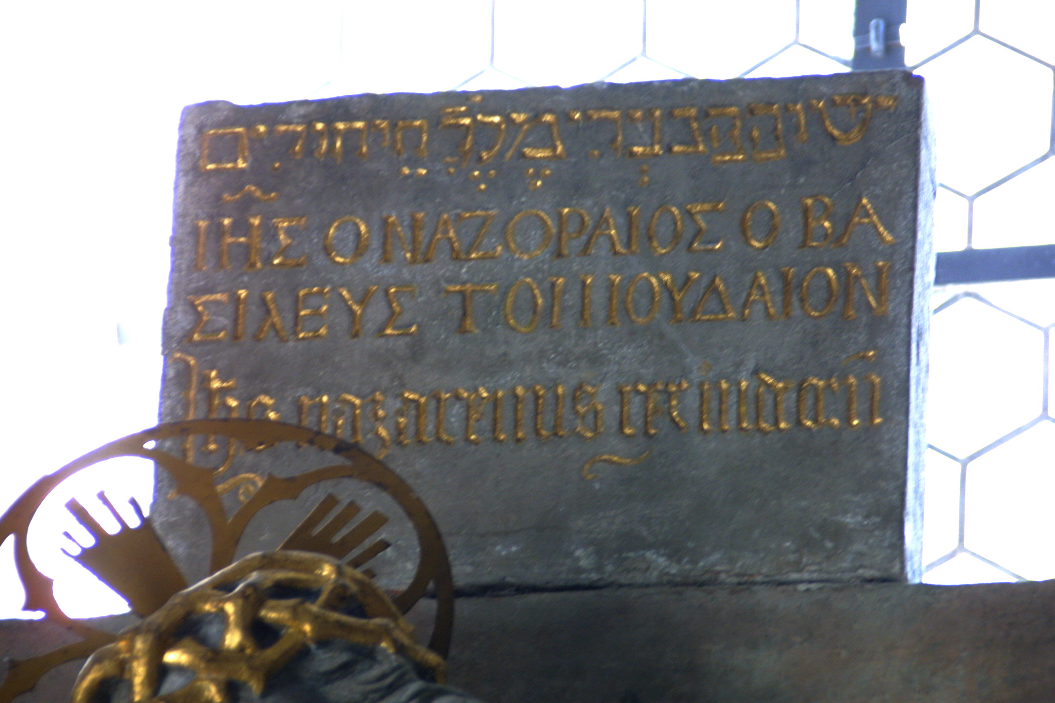 the Bamberg Stations of the Cross